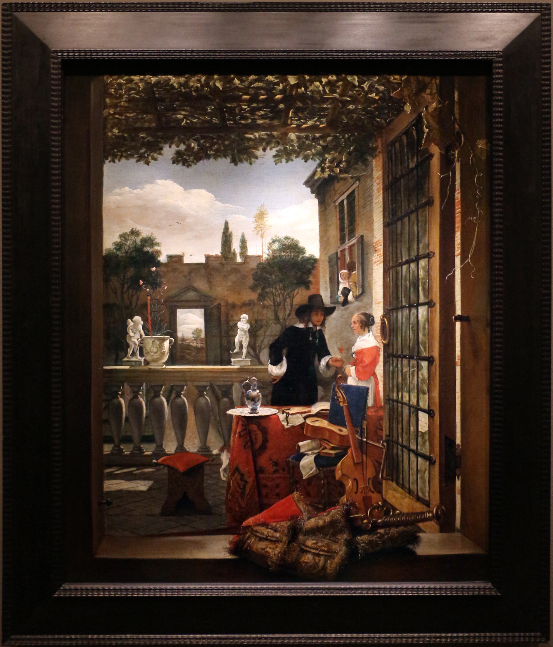 Dutch paintings in the Art Institute of Chicago